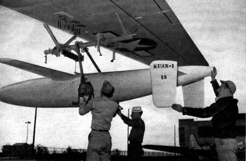 A U.S. Navy KU3N-1 Gorgon IIIA missile in 1947.